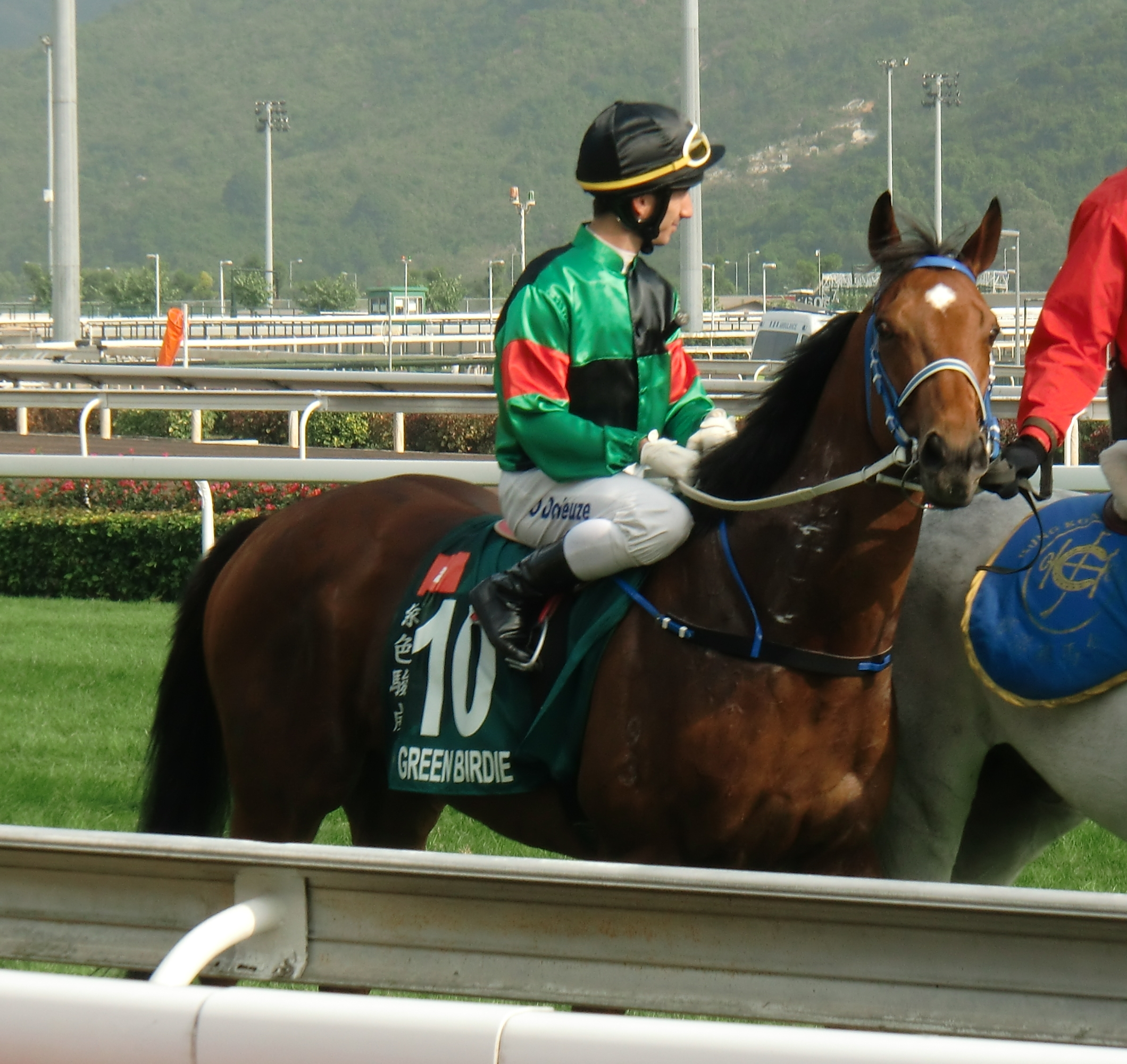 Green Birdie is a racehose train in Australia and Hong Kong, take from Hong Kong Sprint (chopped)